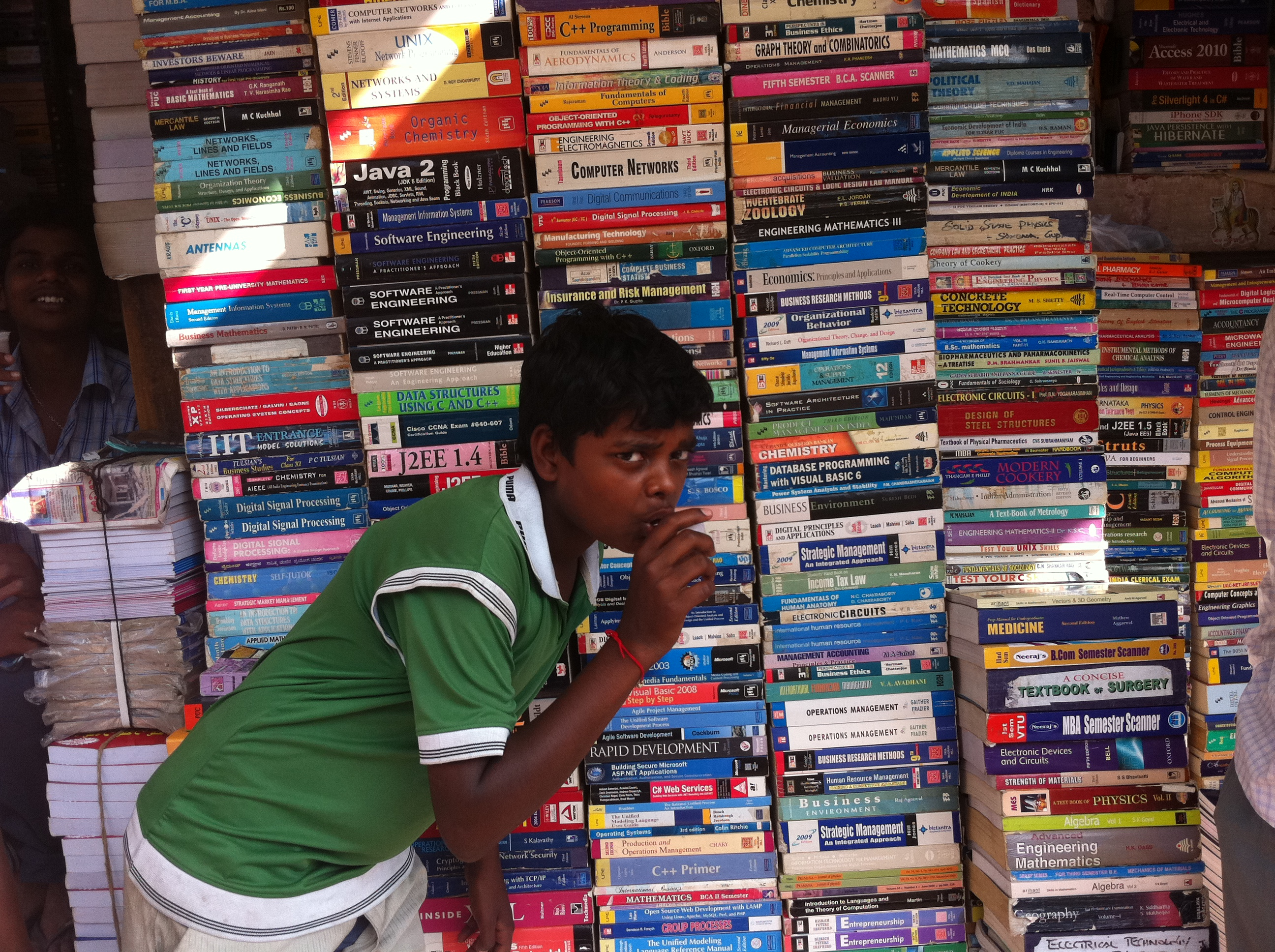 Bangalore India Tech books for sale